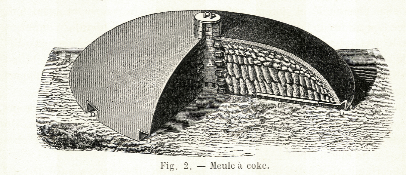 Primitif mode for coke (fuel) production.Picture scanned in : Manuel de la métallurgie du Fer, Tome 1, by Adolf Ledebur, French version translated by Barbary de Langlade annoted par F.Valton, published Librairie polytechnique Baudry et Cie, 1895. page 78